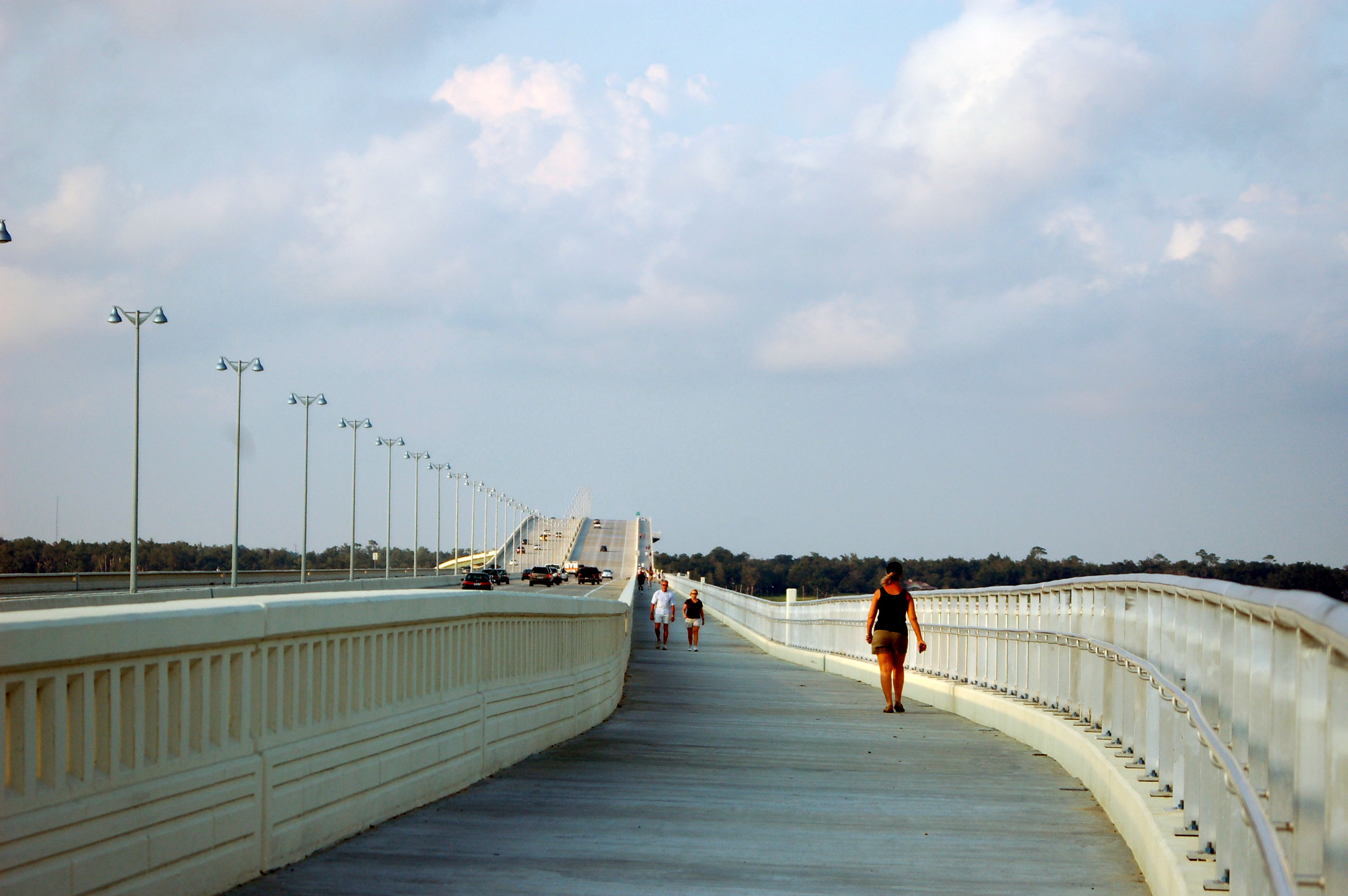 Biloxi, MS, August 14, 2008 -- Joggers and motorists travel the Highway 90 Bridge between Biloxi and Ocean Springs. The bridge opened last November after the previous one was destroyed by Hurricane Katrina. Jennifer Smits/FEMA.